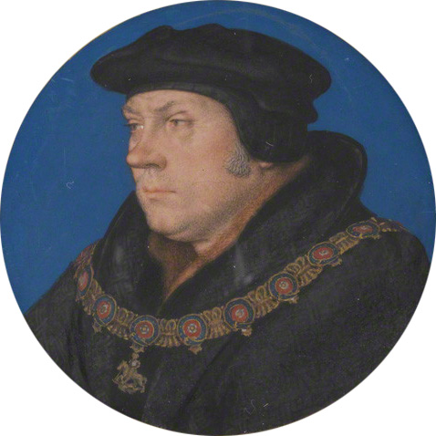 A portrait miniature of Thomas Cromwell wearing the Garter collar, c. 1537, studio of Hans Holbein the Younger.